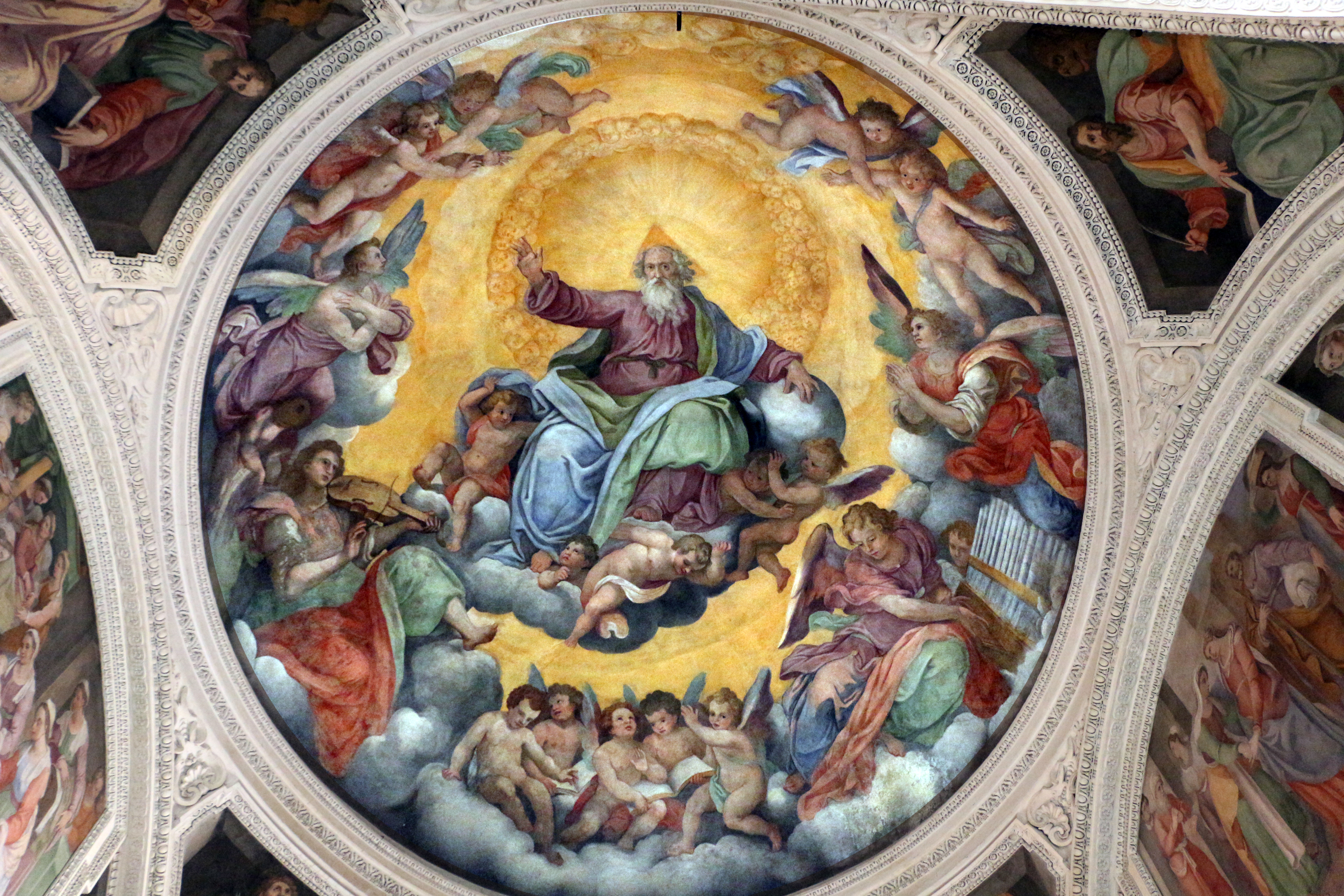 San Francesco a Ripa (Rome) - Interior